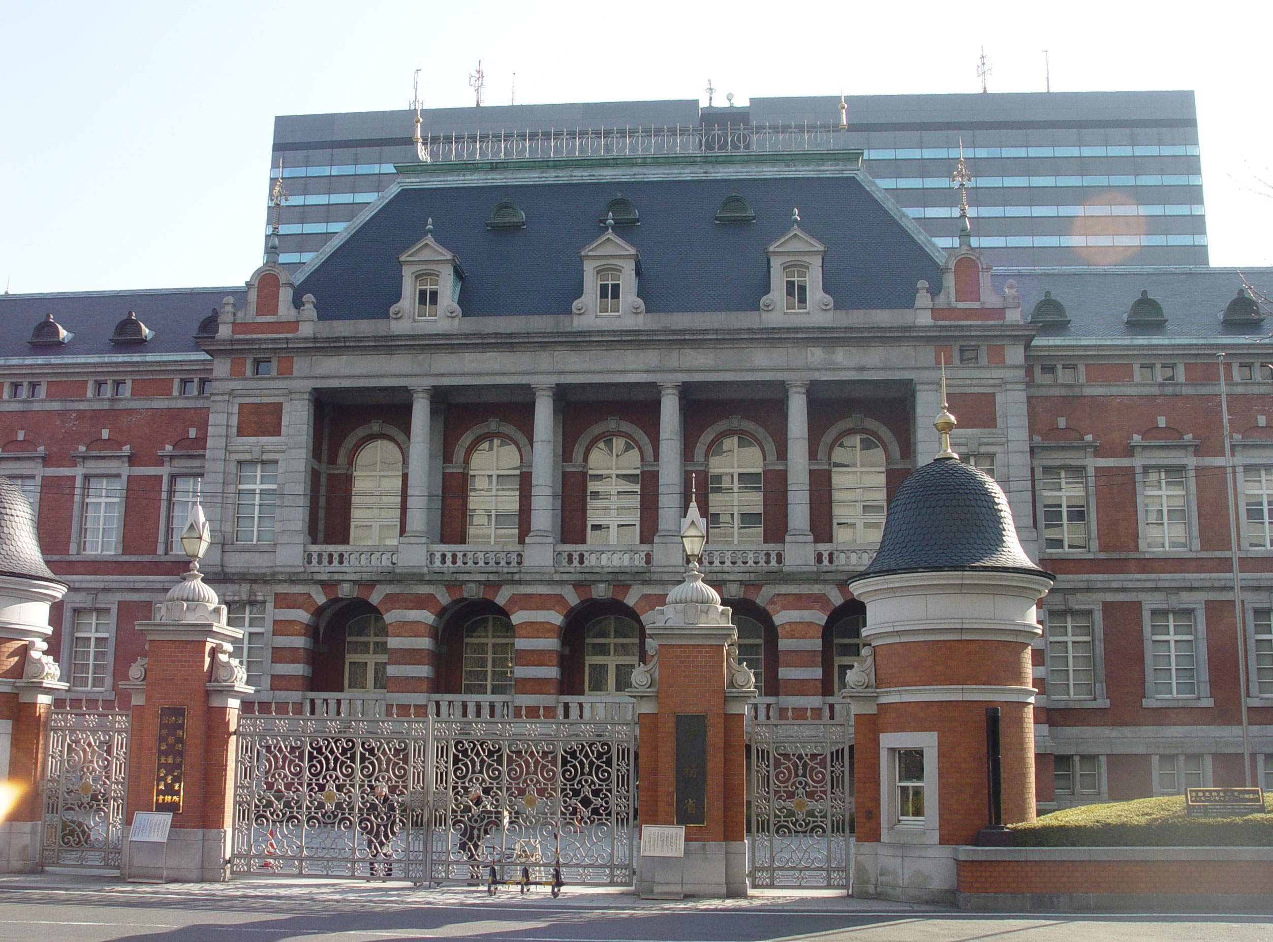 One of the public office buildings of the The Ministry of Justice, Japan 法務省庁舎